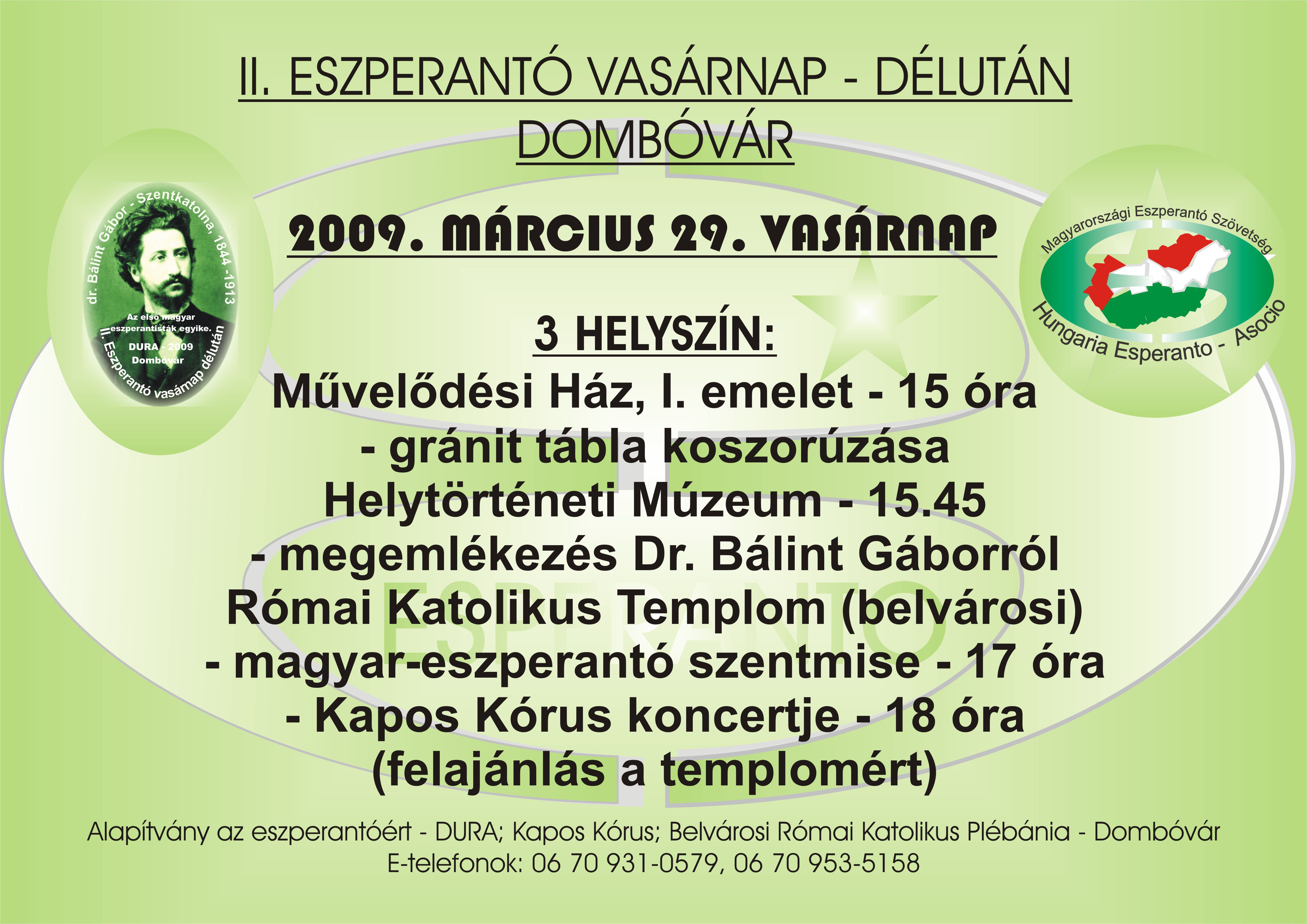 Esperanto poster in Dombóvár, Hungary